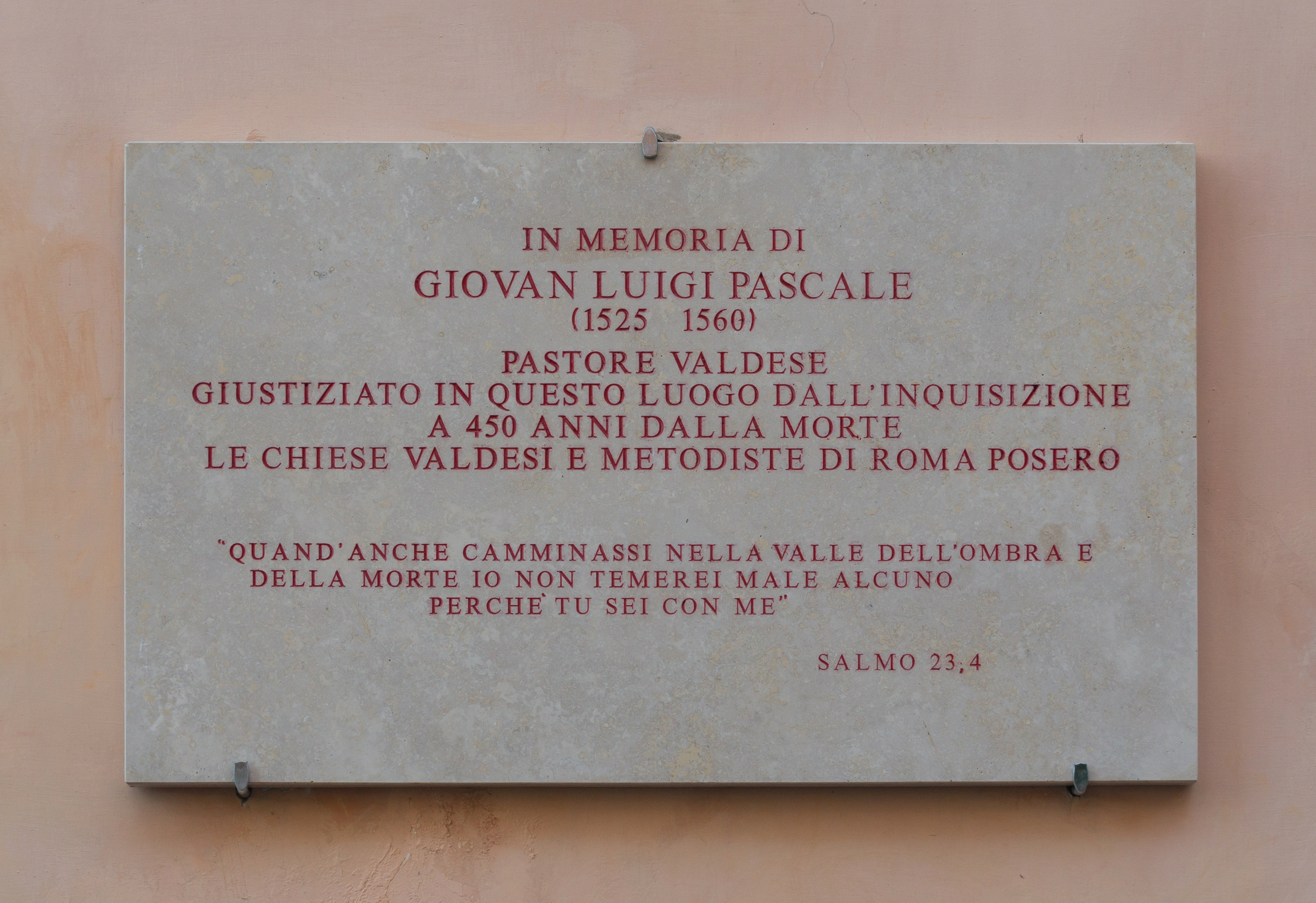 Plaque to Giovan Luigi Pascal, who was a waldense pastor, sentenced to death and executed as heretic by the roman catholic Inquisition in 1560. Rome, Italy